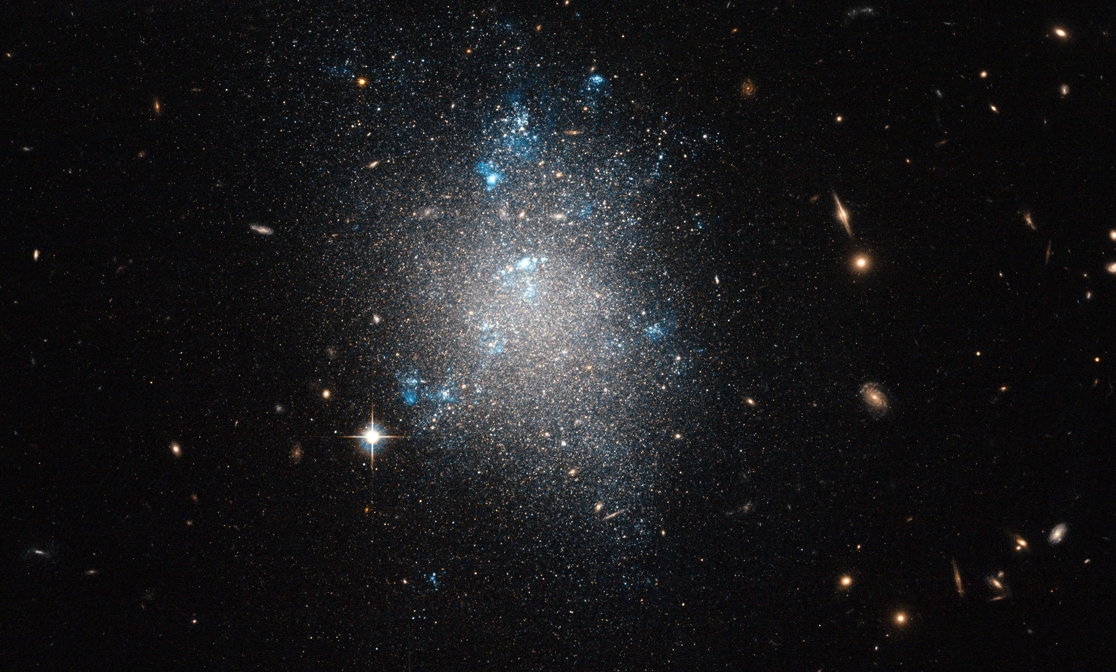 The constellation of Ursa Major (The Great Bear) is home to Messier 101, the Pinwheel Galaxy. One of the biggest and brightest spiral galaxies in the night sky, Messier 101 is also the subject of one of Hubble's most famous images (heic0602). Like the Milky Way, Messier 101 is not alone, with smaller dwarf galaxies in its neighbourhood. NGC 5477, one of these dwarf galaxies in the Messier 101 group, is the subject of this image from the NASA/ESA Hubble Space Telescope. Without obvious structure, but with visible signs of ongoing starbirth, NGC 5477 looks much like an archetypal dwarf irregular galaxy. The bright nebulae that extend across much of the galaxy are clouds of glowing hydrogen gas in which new stars are forming. These glow pinkish red in real life, although the selection of green and infrared filters through which this image was taken makes them appear almost white. The observations were taken as part of a project to measure accurate distances to a range of galaxies within about 30 million light-years from Earth, by studying the brightness of red giant stars. In addition to NGC 5477, the image includes numerous galaxies in the background, including some that are visible right through NGC 5477. This serves as a reminder that galaxies, far from being solid, opaque objects, are actually largely made up of the empty space between their stars. This image is a combination of exposures taken through green and infrared filters using Hubble's Advanced Camera for Surveys. The field of view is approximately 3.3 by 3.3 arcminutes.